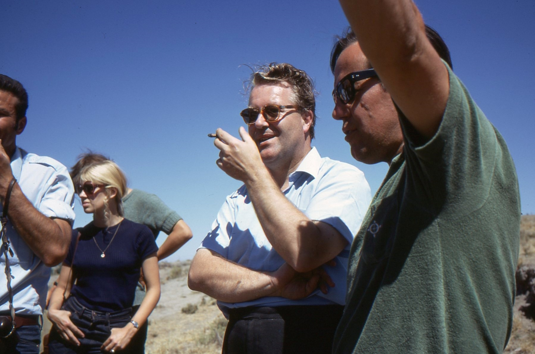 The British archaeologists James Mellaart in the middle, smoking a cigarette at the neolithic site of Çatalhöyük in Turkey.